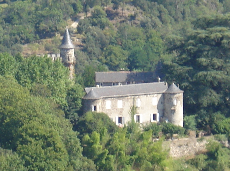 the village's castle seen from the south-west